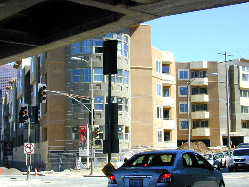 Belmont Station Apartments being built over Belmont Tunnel.